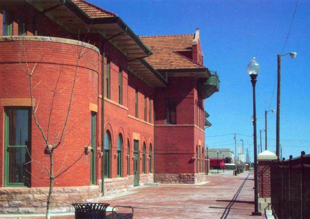 Dodge City Train Station, Kansas